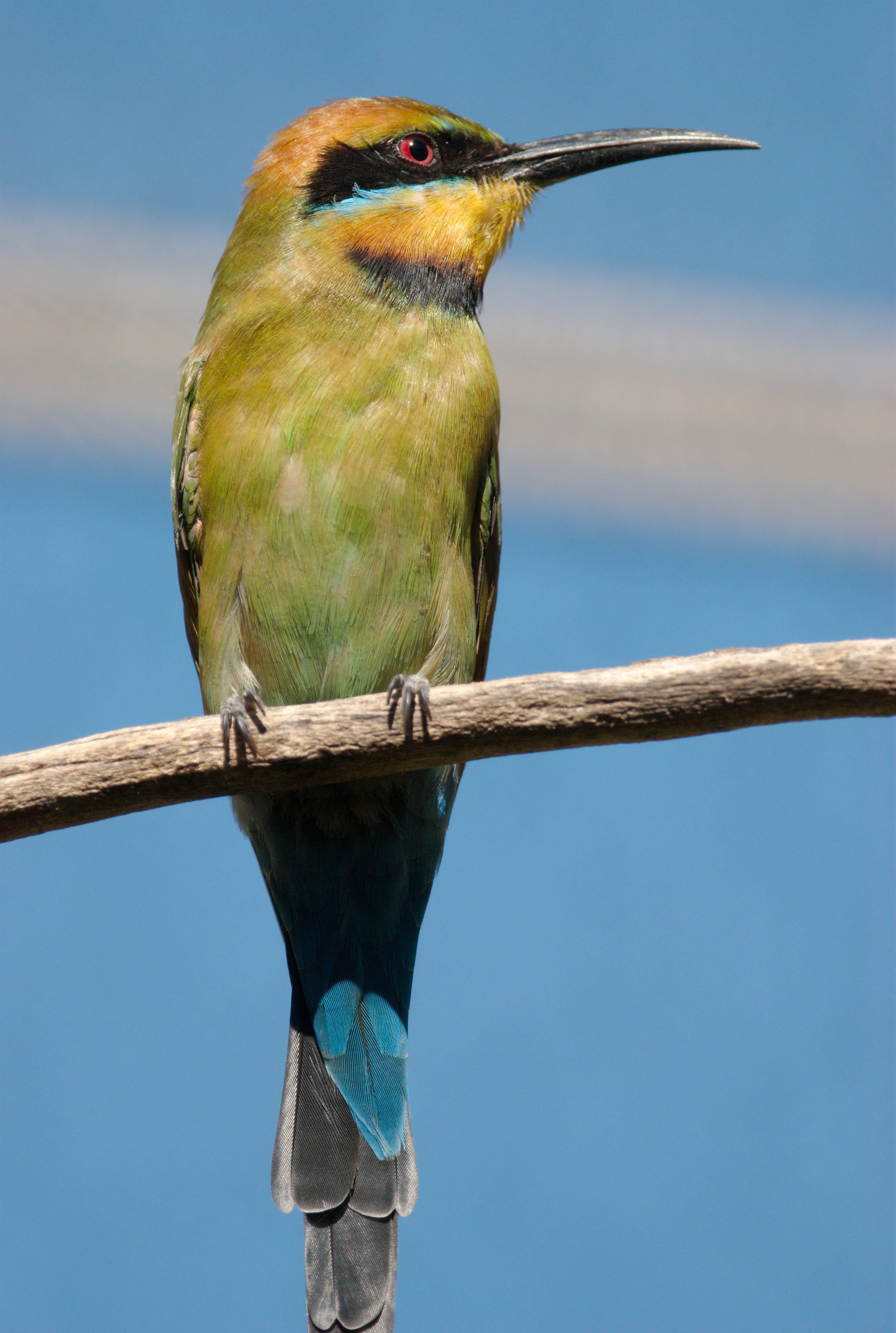 Rainbow Bee Eater (Merops ornatus) at Adelaide Zoo